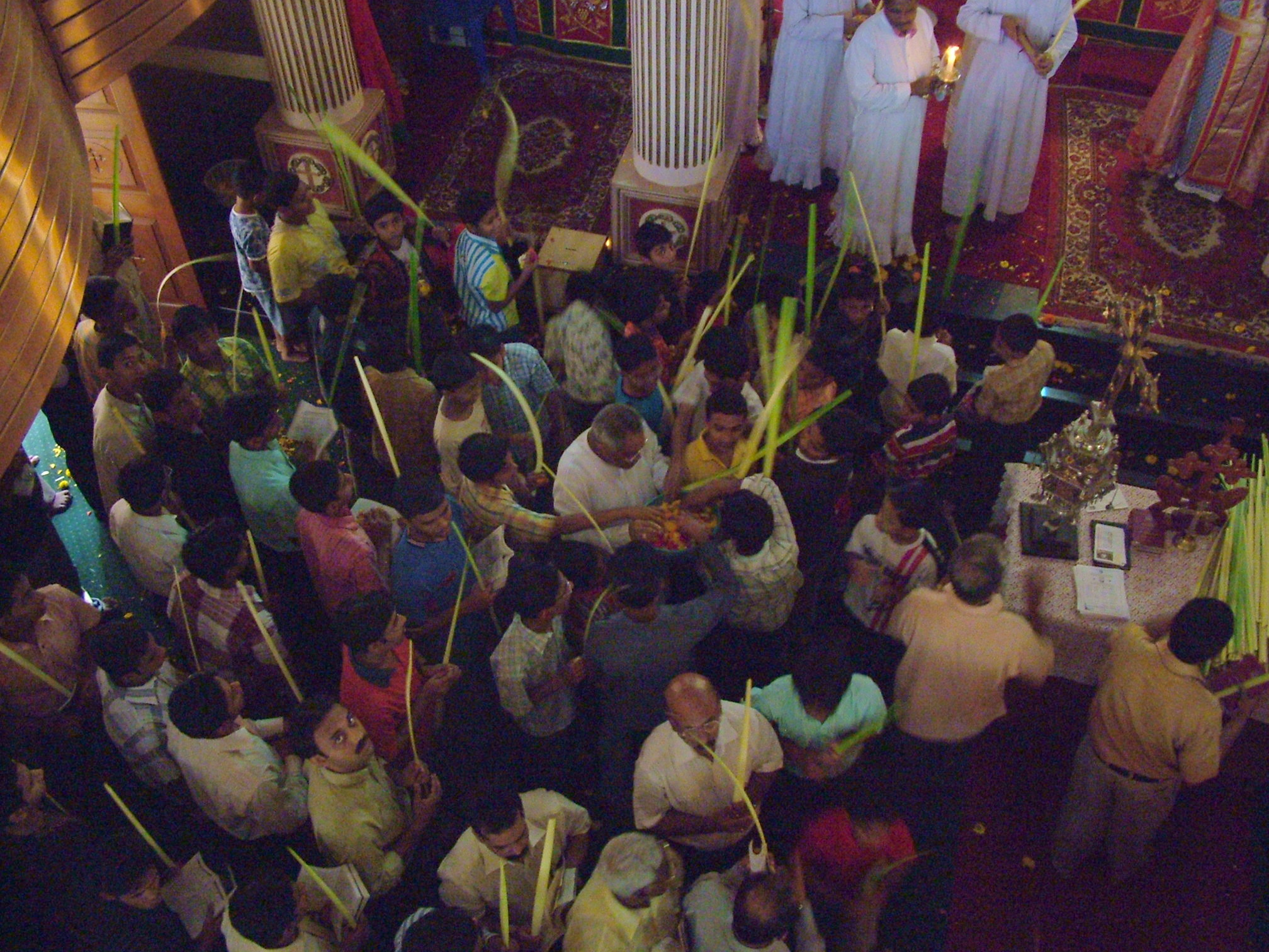 The congregation in an Oriental Orthodox church in India collects palm fronds for the Palm Sunday procession (the men of the congregation on the left of the sanctuary in the photo; the women of the congregation are collecting their fronds on the right of the sanctuary, outside the photo.